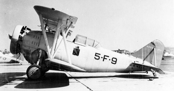 PictionID:40961472 - Catalog:Array - Title:Array - Filename:16_000092 Grumman FF-1 9359 VF-5B 5-F-9.tif - - - Ray Wagner was Archivist at the San Diego Air and Space Museum for several years and is an author of several books on aviation --- ---Please Tag these images so that the information can be permanently stored with the digital file.---Repository: San Diego Air and Space Museum